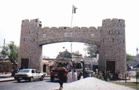 The Khyber Pass gate (Bab-e-Khyber) located near Peshawar, Pakistan